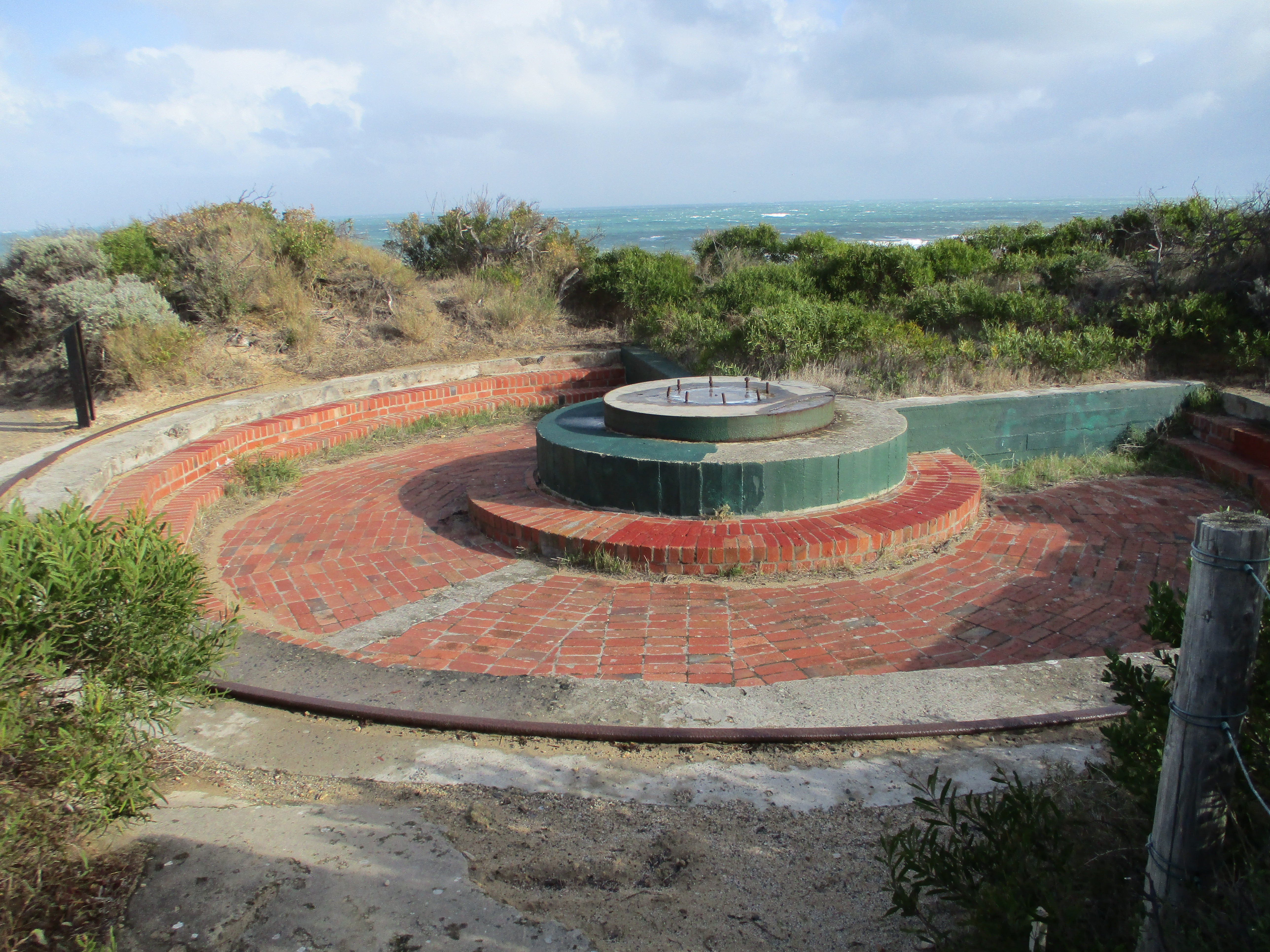 Remnants of the Point Peron coastal defences: The former northern gun position. The installations are being restored after decades of neglect.